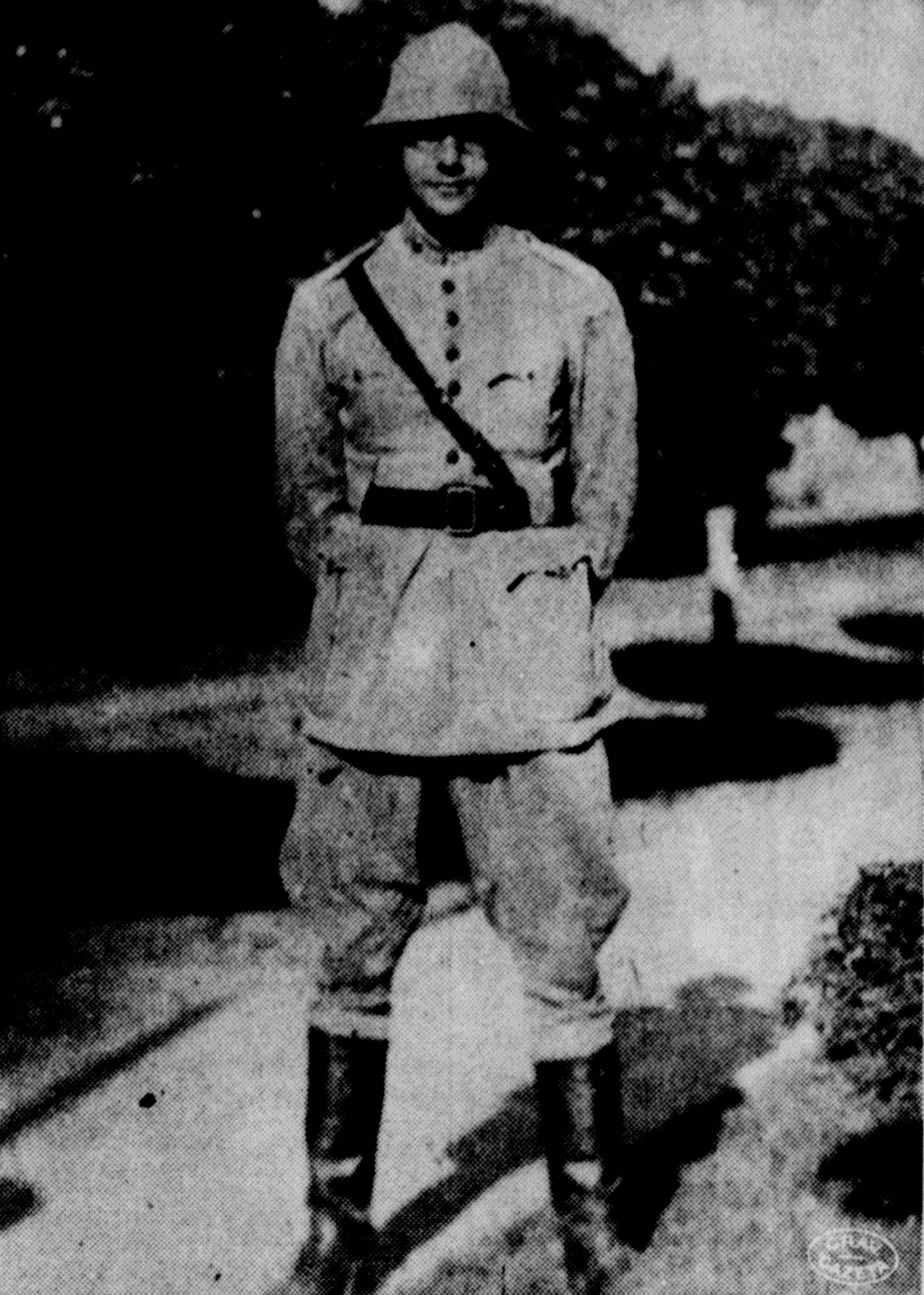 Captain of the Public Force of São Paulo Reynaldo R. Saldanha da Gama